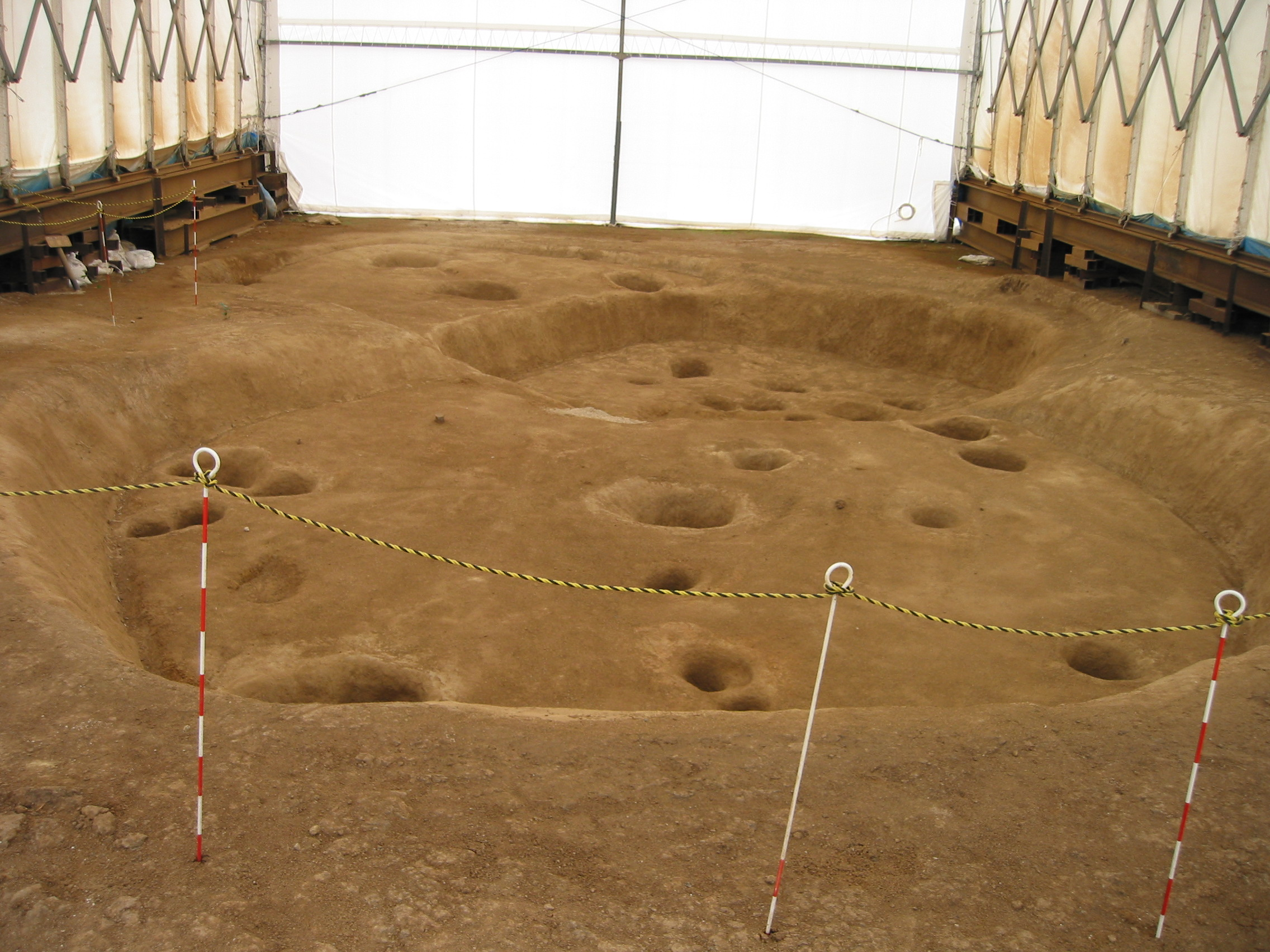 photo of Mukibanda remains,house trace in Mukiyama area